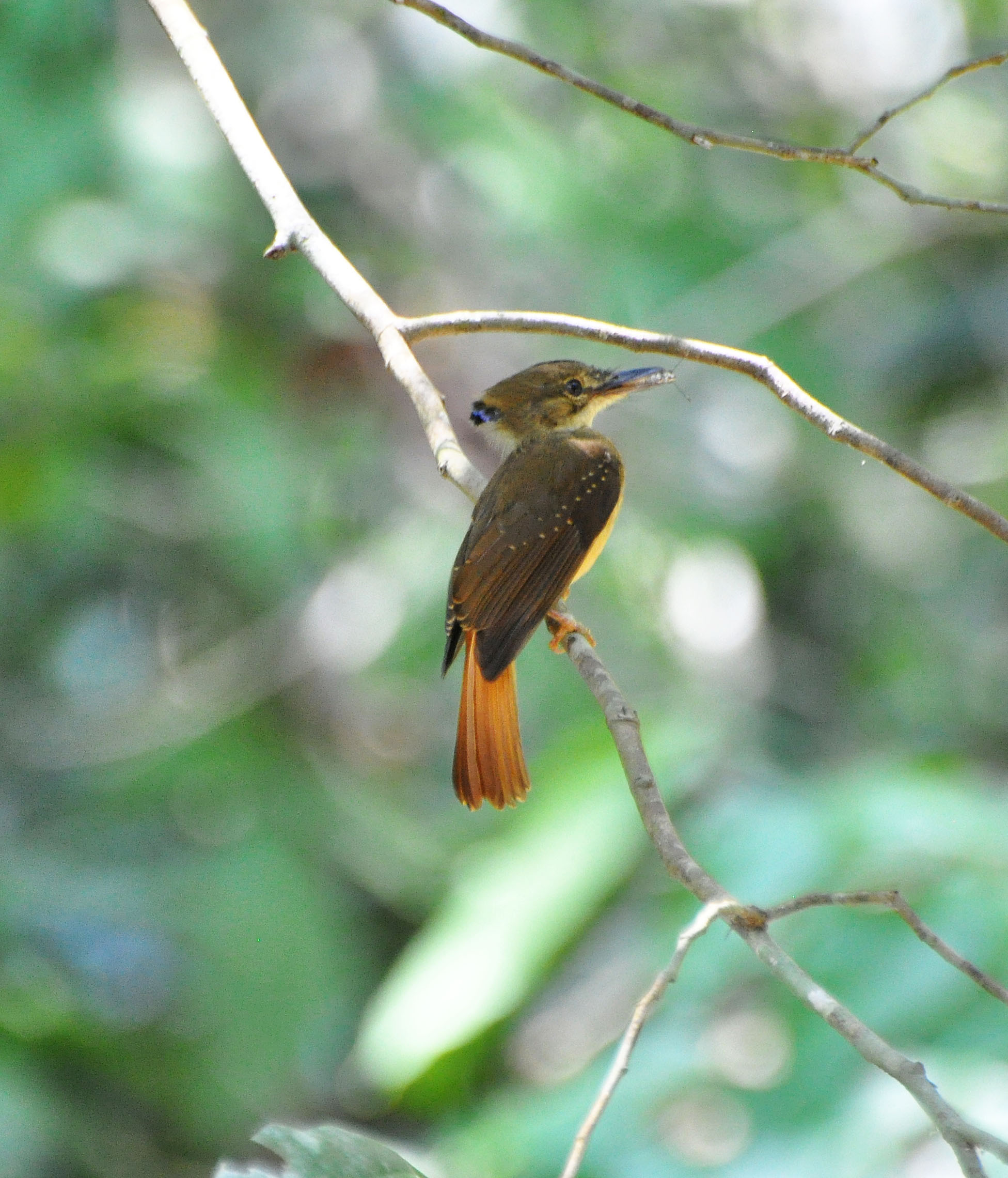 Northern Royal Flycatcher Onychorhynchus mexicanus, Carara National Park, Costa Rica